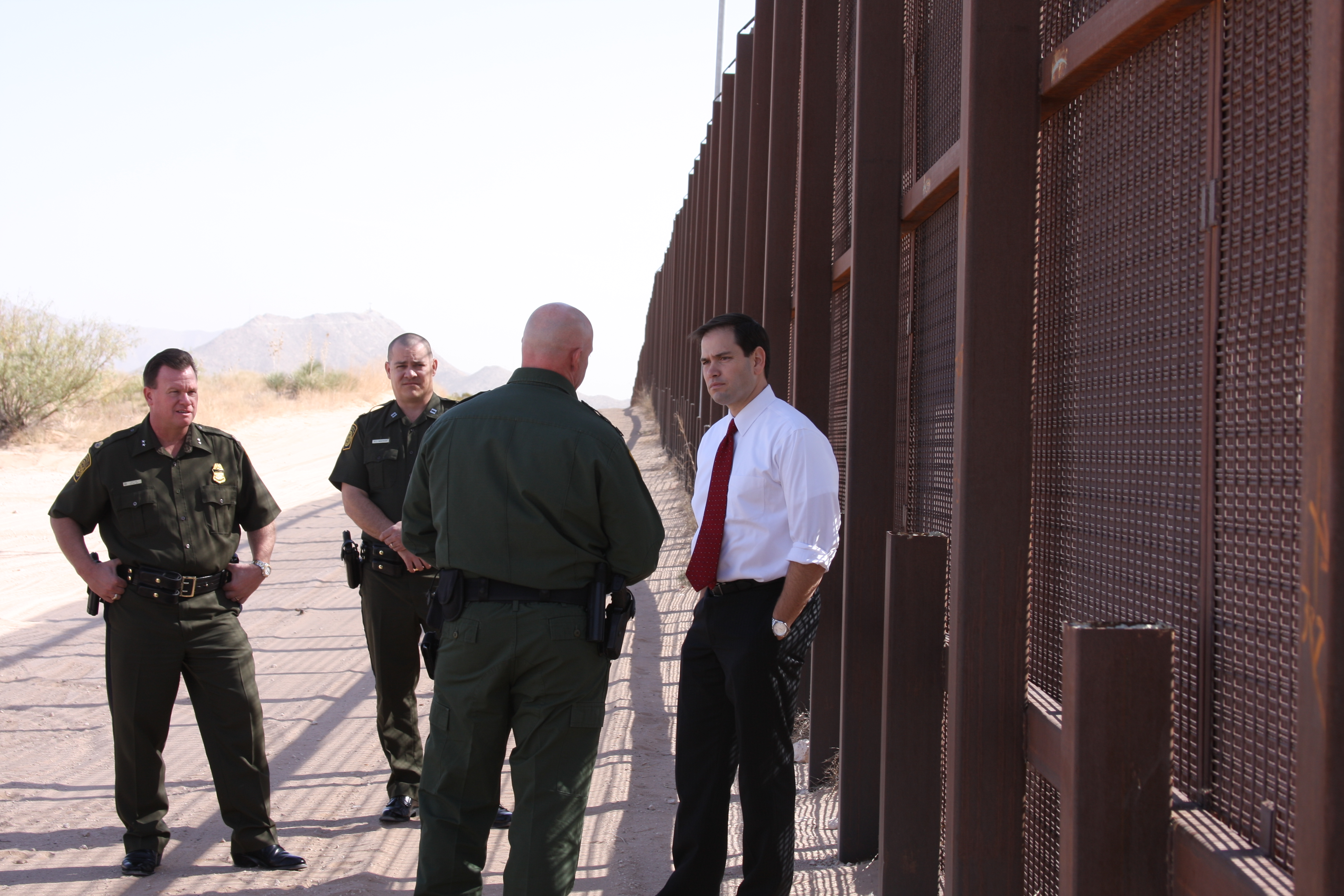 U.S. Senator Marco Rubio visiting the US-Mexican border in November 2011 with Customs and Border Patrol officials.